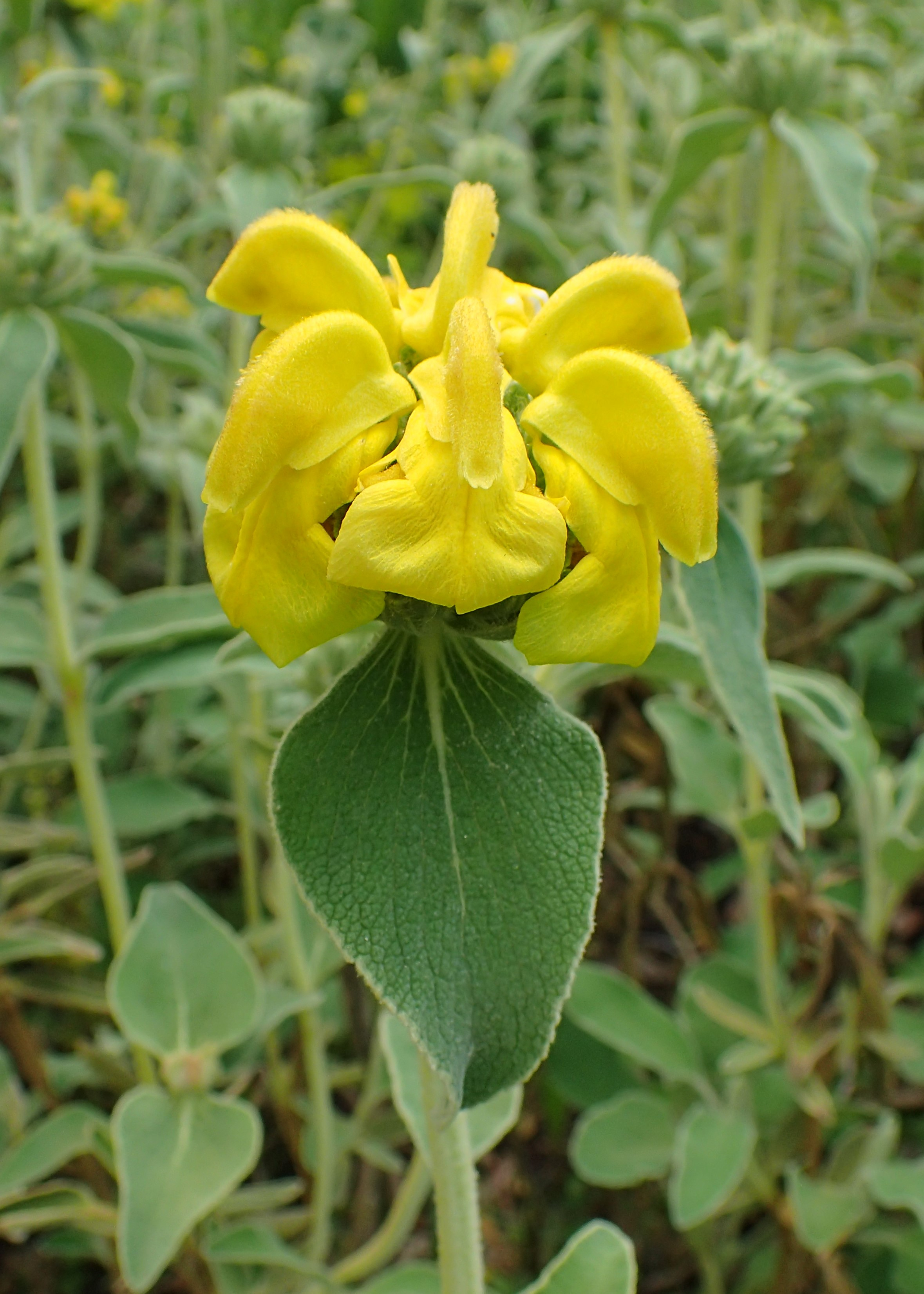 Phlomis fruticosa in the Botanischer Garten, Berlin-Dahlem